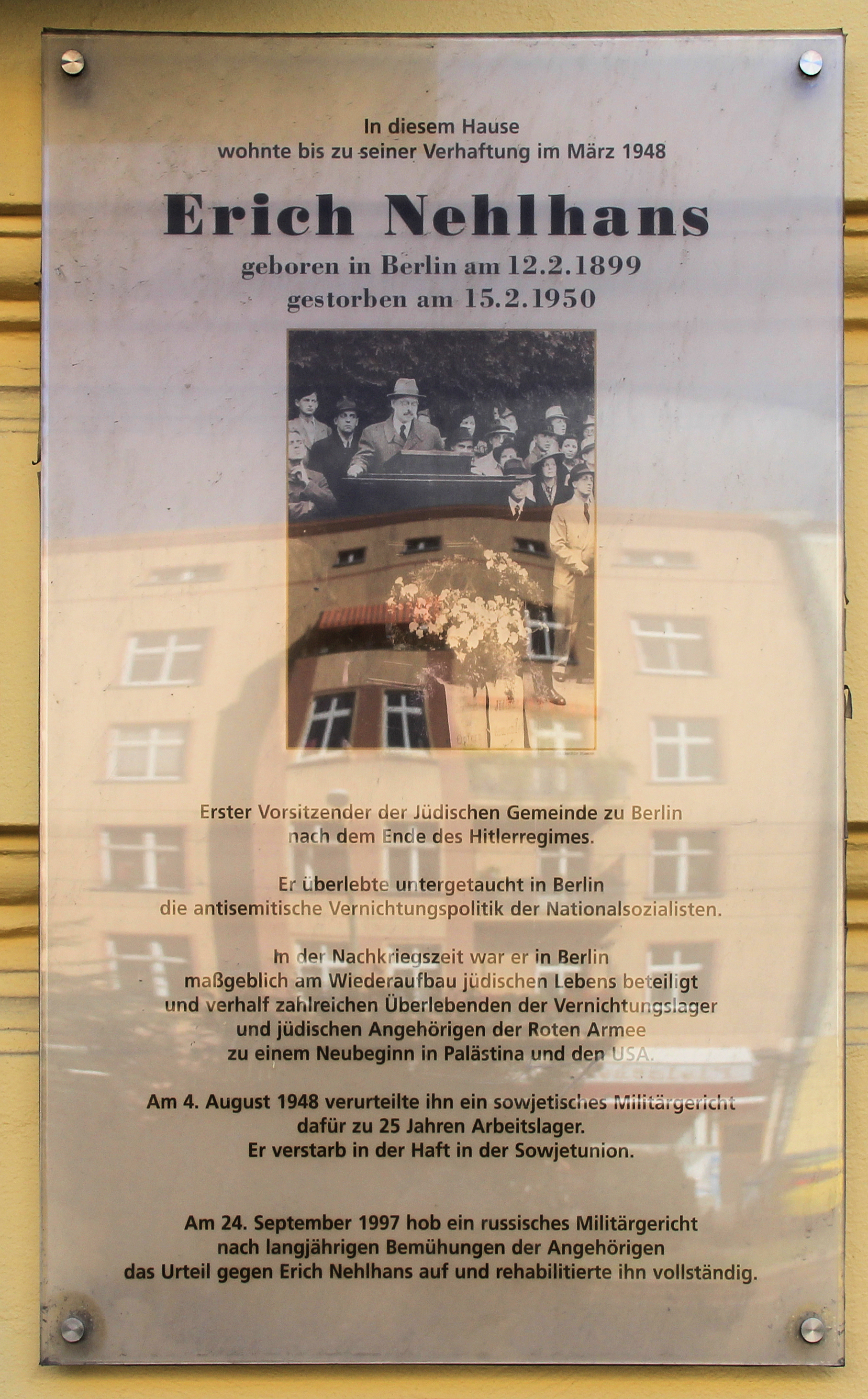 Memorial plaque, Erich Nehlhans, Prenzlauer Allee 35, Berlin-Prenzlauer Berg, Germany Koordinate:52°32′5″N 13°25′19″E / 52.53472°N 13.42194°E